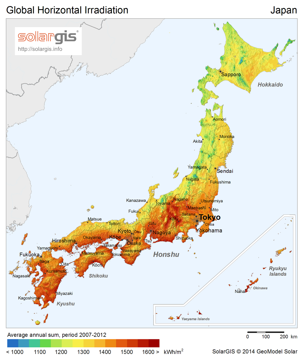 Solar Radiation Map: Global Horizontal Irradiation Map of Japan, SolarGIS. English version.